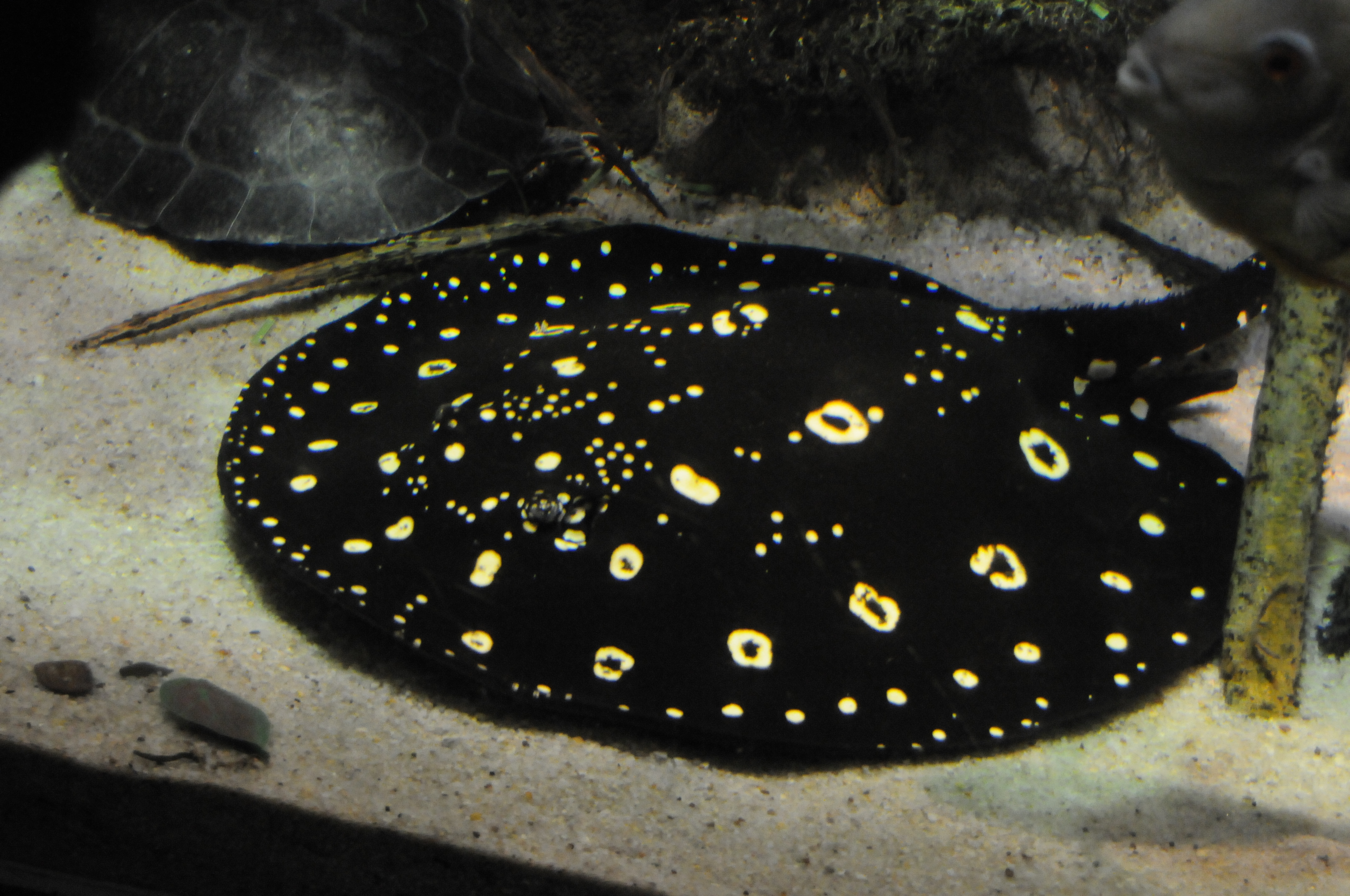 Bigtooth river stingray (Potamotrygon henlei) at the National Aquarium